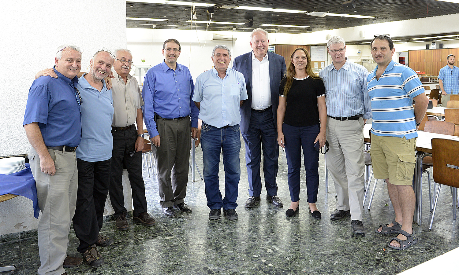 On August 29, U.S. Undersecretary of State for Political Affairs Thomas Shannon visited southern Israel. He stopped at the Kerem Shalom crossing point to see how goods enter and leave the Gaza Strip, was briefed on and toured a Hamas tunnel that had been discovered by the IDF, and met with local residents from several communities at Kibbutz Or HaNer. At the Kibbutz he toured the Ornit factory. He also visited an Iron Dome battery. On August 29, U.S. Undersecretary of State for Political Affairs Thomas Shannon visited southern Israel. He stopped at the Kerem Shalom crossing point to see how goods enter and leave the Gaza Strip, was briefed on and toured a Hamas tunnel that had been discovered by the IDF, and met with local residents from several communities at Kibbutz Or HaNer. At the Kibbutz he toured the Ornit factory. He also visited an Iron Dome battery.